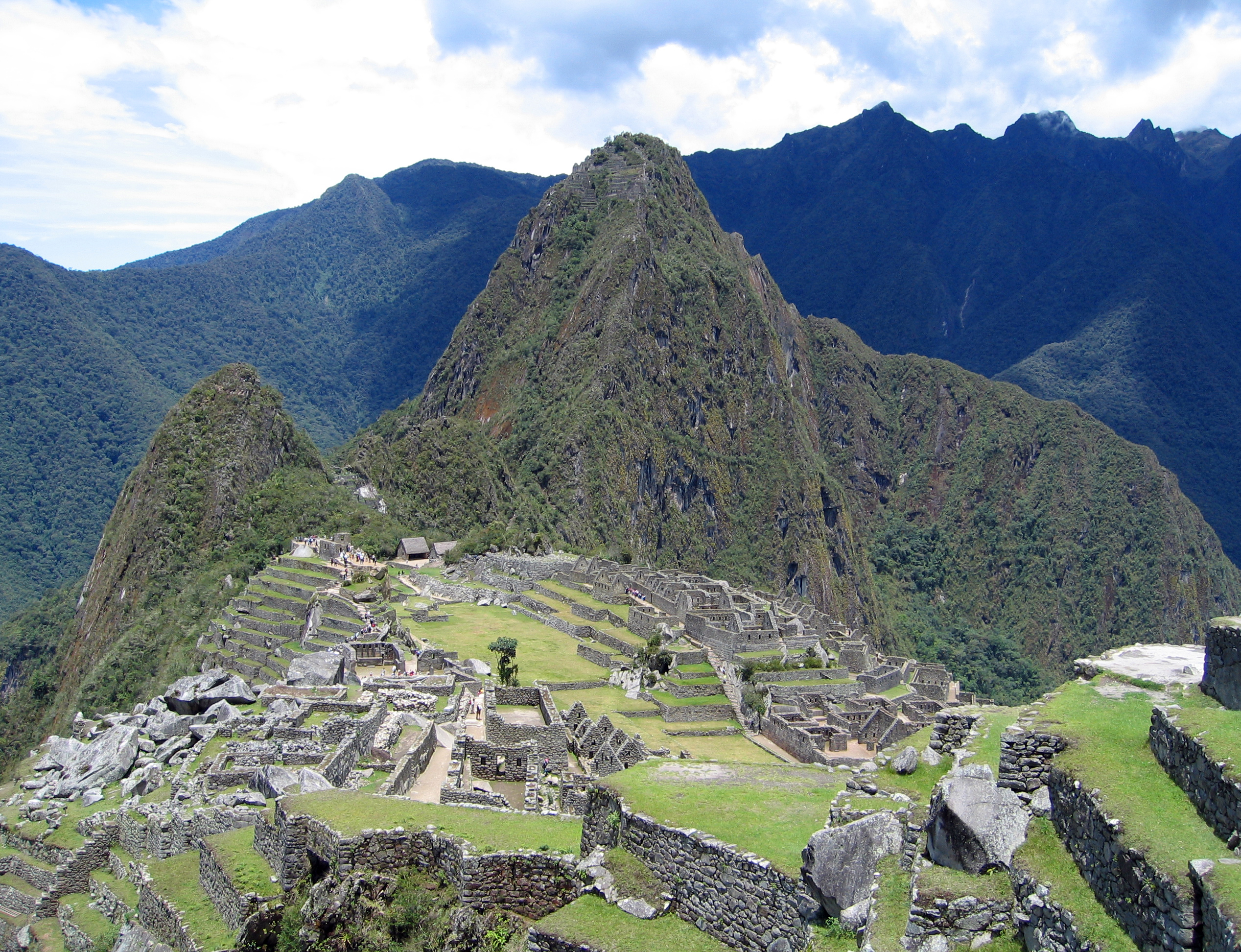 Peru Machu Picchu